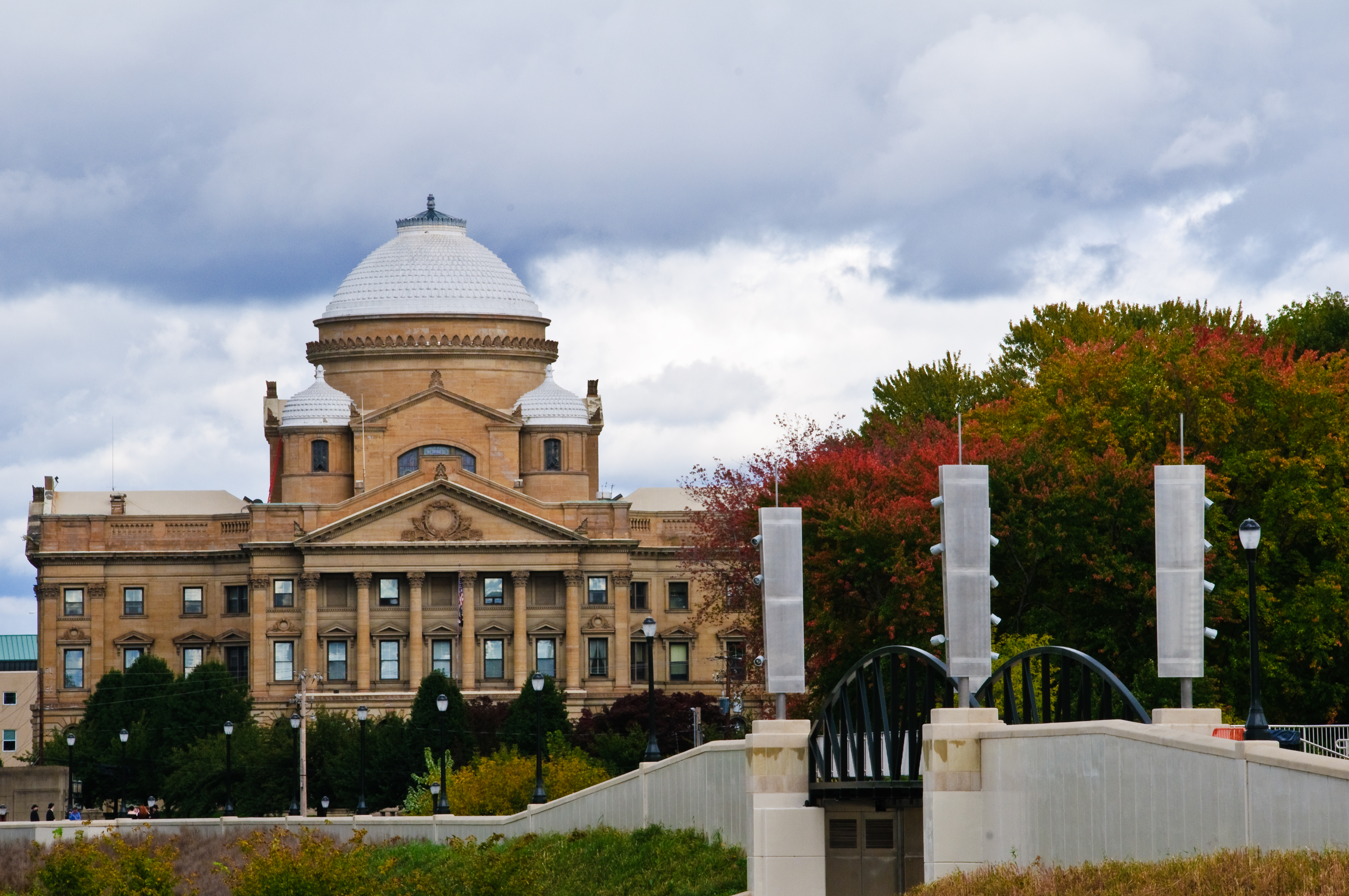 Luzerne County Courthouse, at Wilkes-Barre, Pennsylvania, United States.